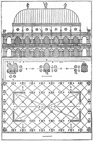 Basilica Palladiana in Vicenza, engraving from I quattro libri dell'architettura by Andrea Palladio.